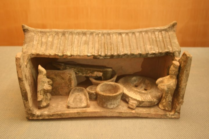 A Chinese painted pottery model of a gristmill, from the Han Dynasty.